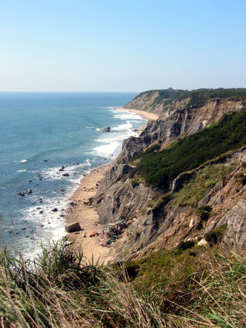 Bluffs- Block Island, RI